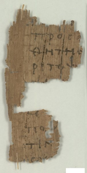 Papyrus 109 verso